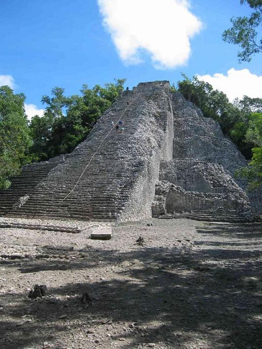 Pyramid of Nohock Mul - Cobá - México